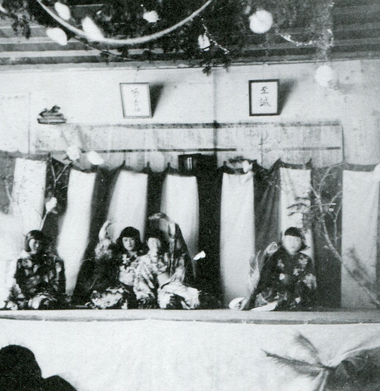 Ashikawa junior high school School play